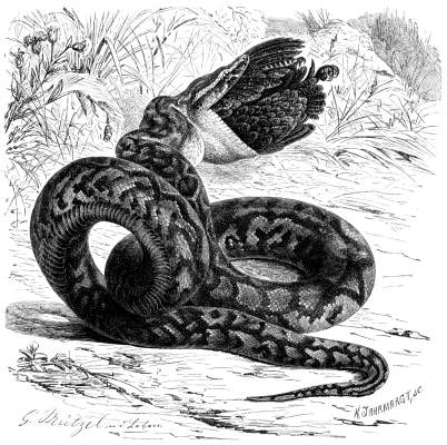 Python sebae. Illustration from Brehms Thierleben.